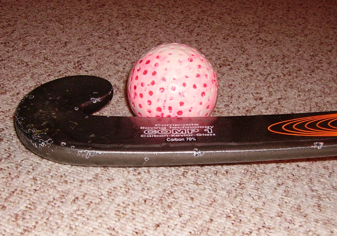 Connection between Stick and Ball